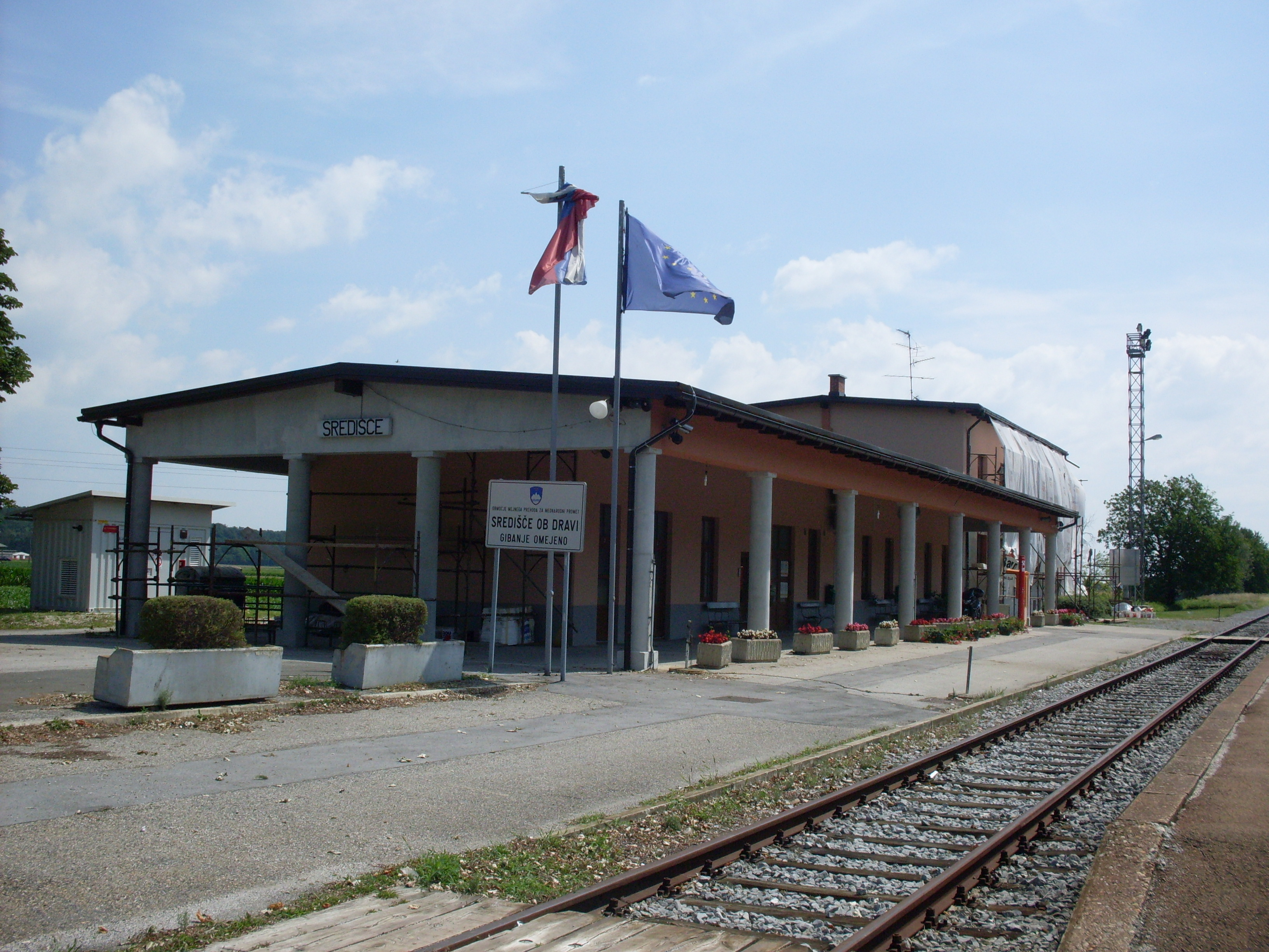 Train station središče, located in Središče ob Dravi, Slovenia